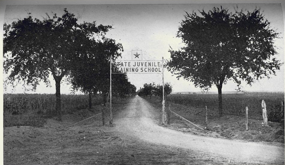 Entrance to the Gatesville State School